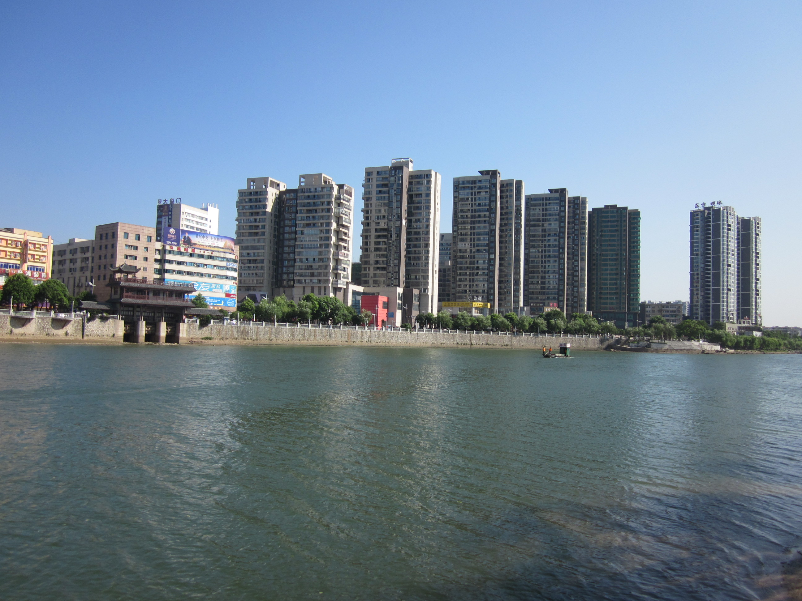 Wei River,Ning Xiang county